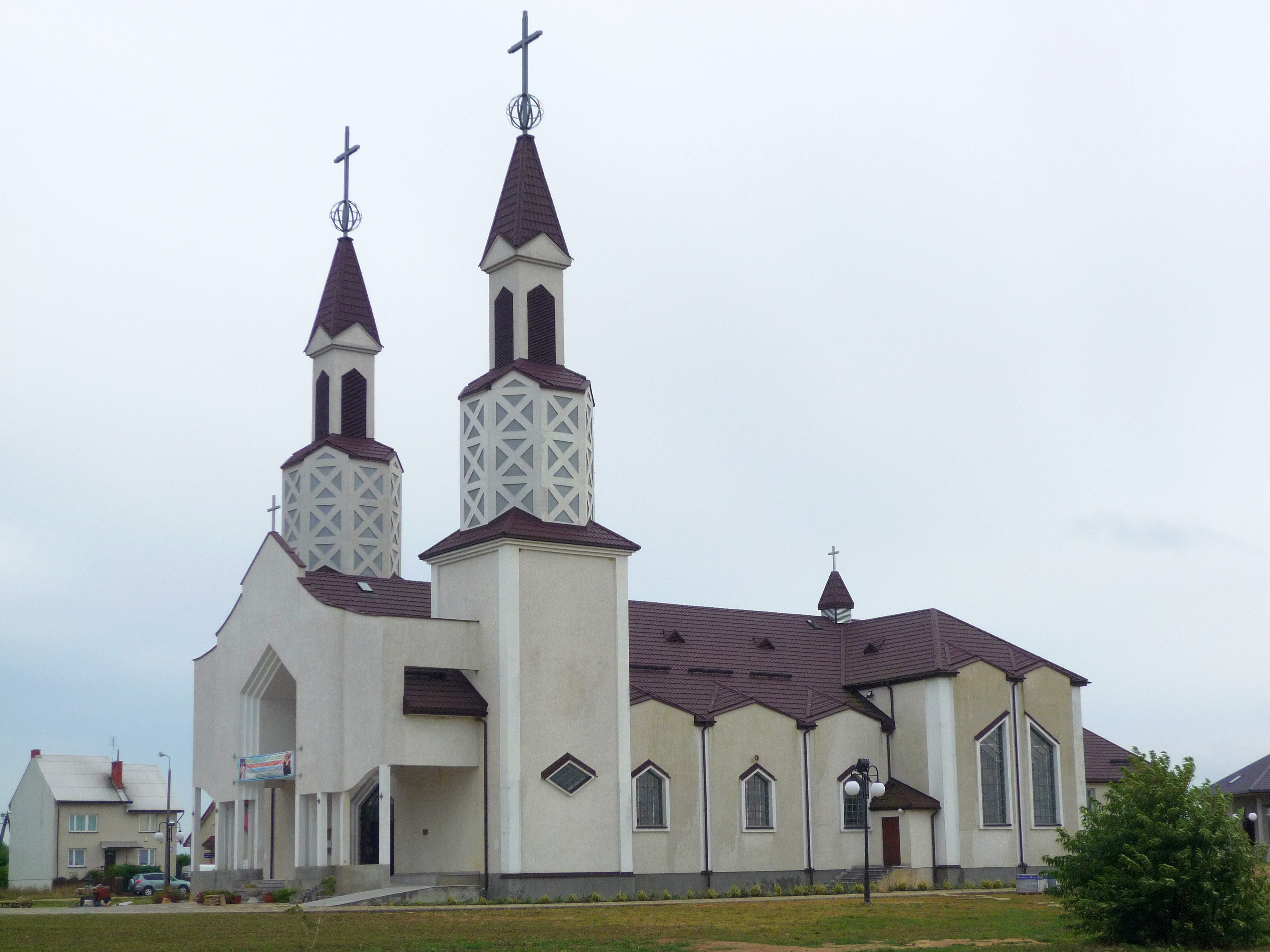 Kolno - Parish church of Jesus Christ King of the universe